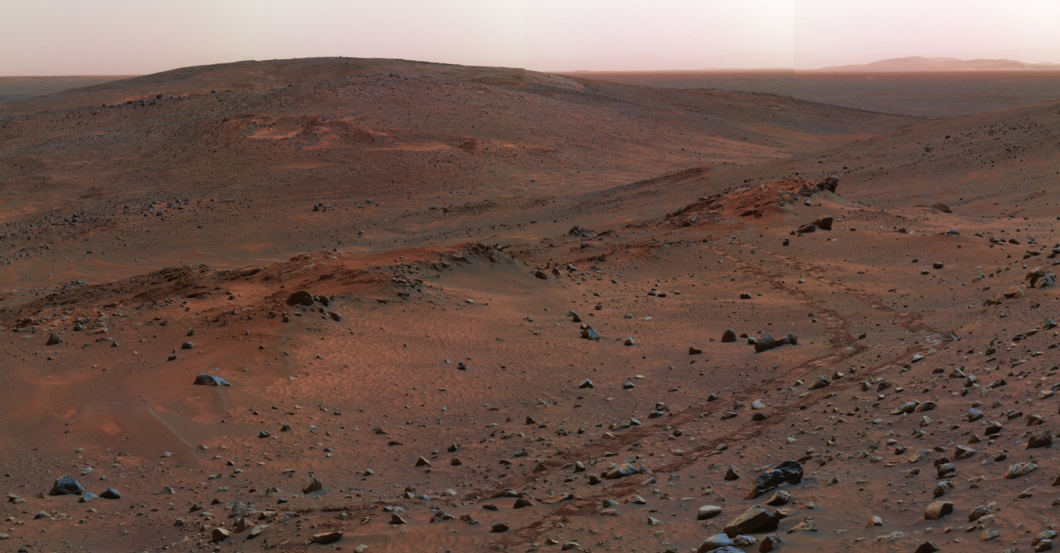 Picture of mars, taken by the Spirit rover on Sol 454. This image shows a region in the "Columbia Hills" inside Gusev crater. The view features two interesting outcrops in the middle distance and "Clark Hill" in the left background. The outcrop on the right, with rover tracks leading from it, is "Larry's Lookout." On the left is the Methuselah outcrop, with apparent layering.